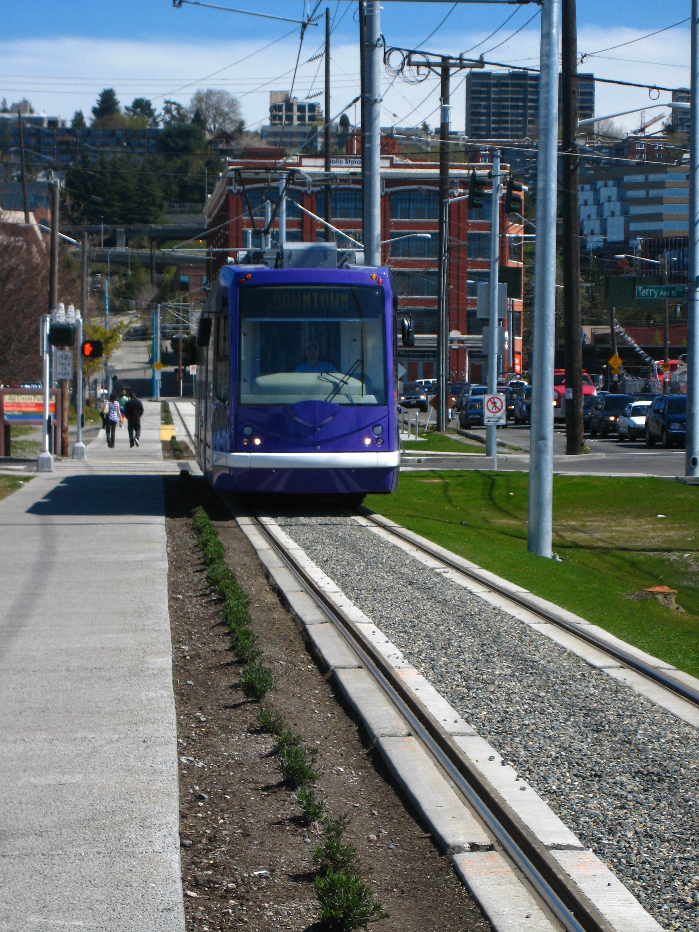 The purple South Lake Union Trolley traveling along South Lake Union, Seattle WA.